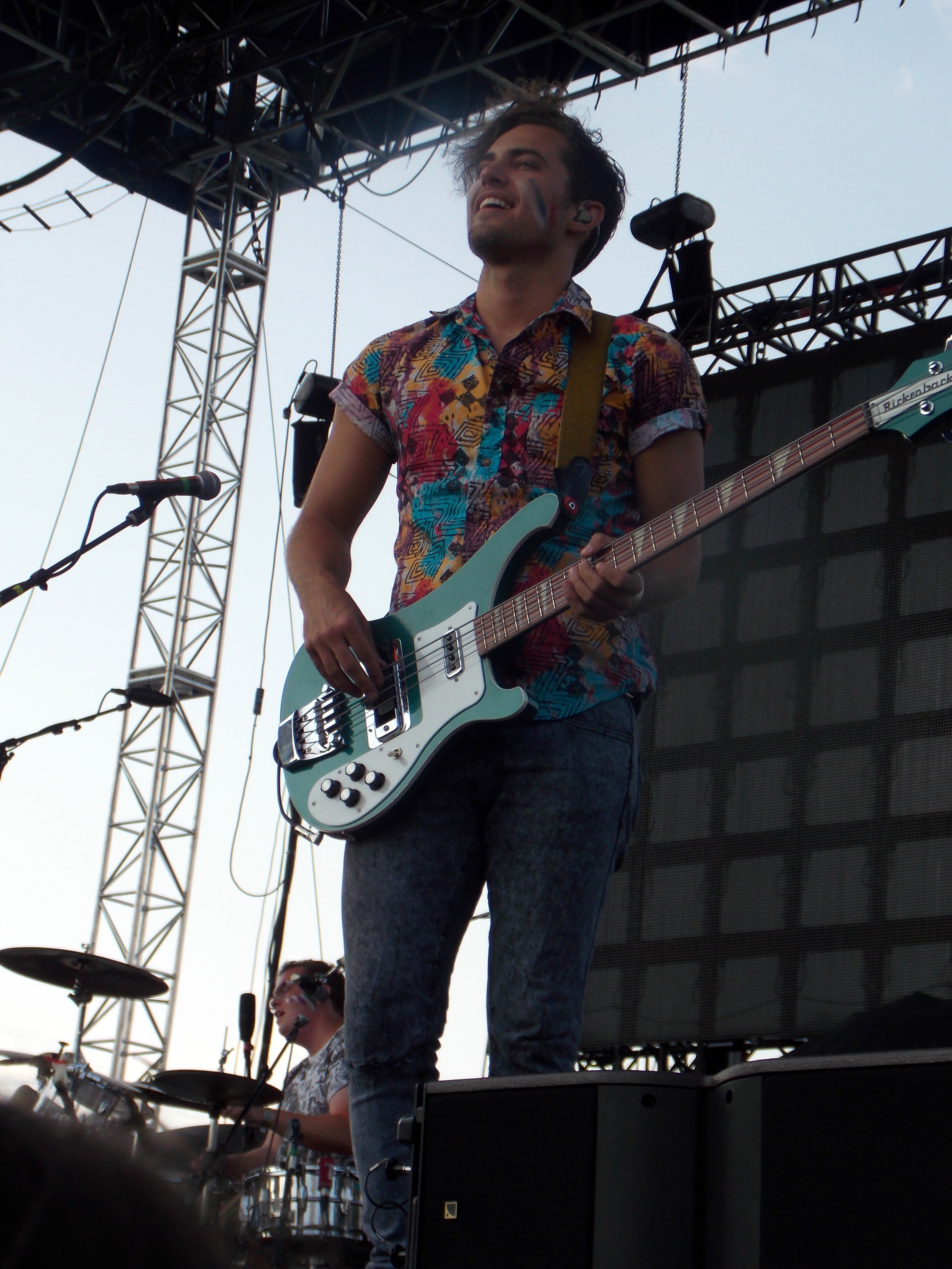 Walk the Moon at Bunbury Music Festival 7/12/2013 Taken at Bunbury Music Festival at Sawyer Point Park & Yeatman's Cove in Cincinnati, Ohio.